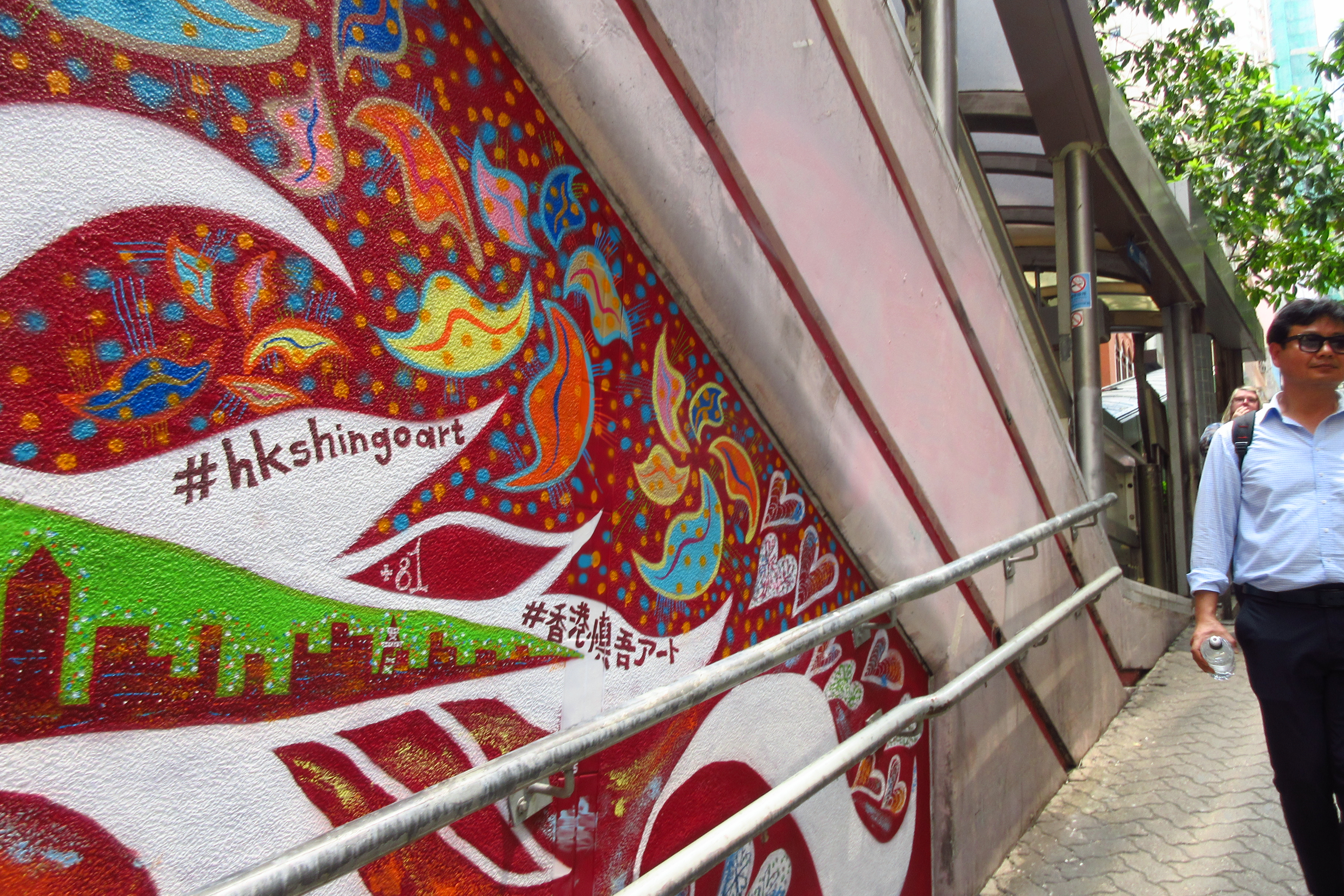 Shingo Katori 香取慎吾 HK 中環 Central 些利街 Shelley Street Graffiti wall picture in April 2018